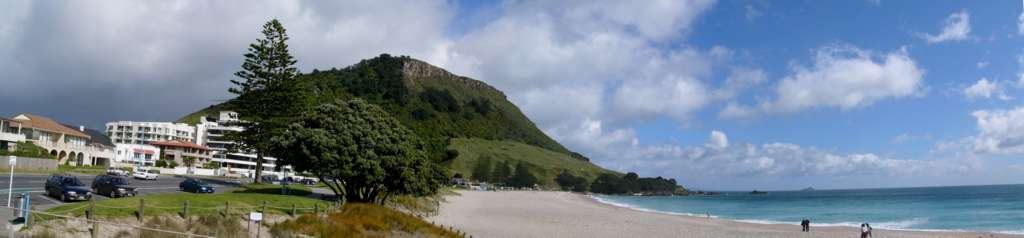 Panorama of photos of Mt Maunganui, Tauranga, New Zealand